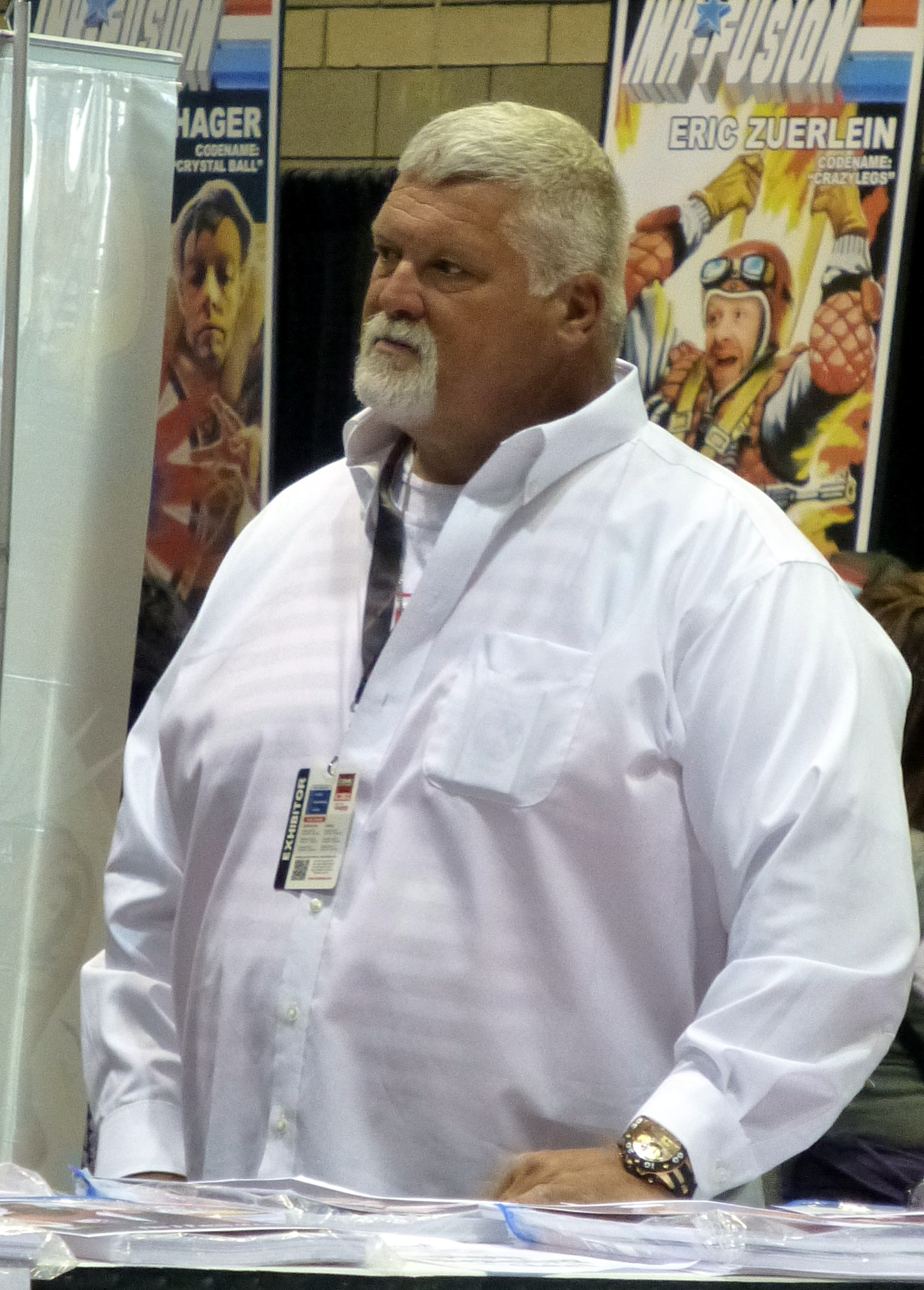 Fred Ottman aka Typhoon in 2014